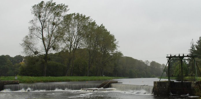 Lock and weir in Saint-Goazec